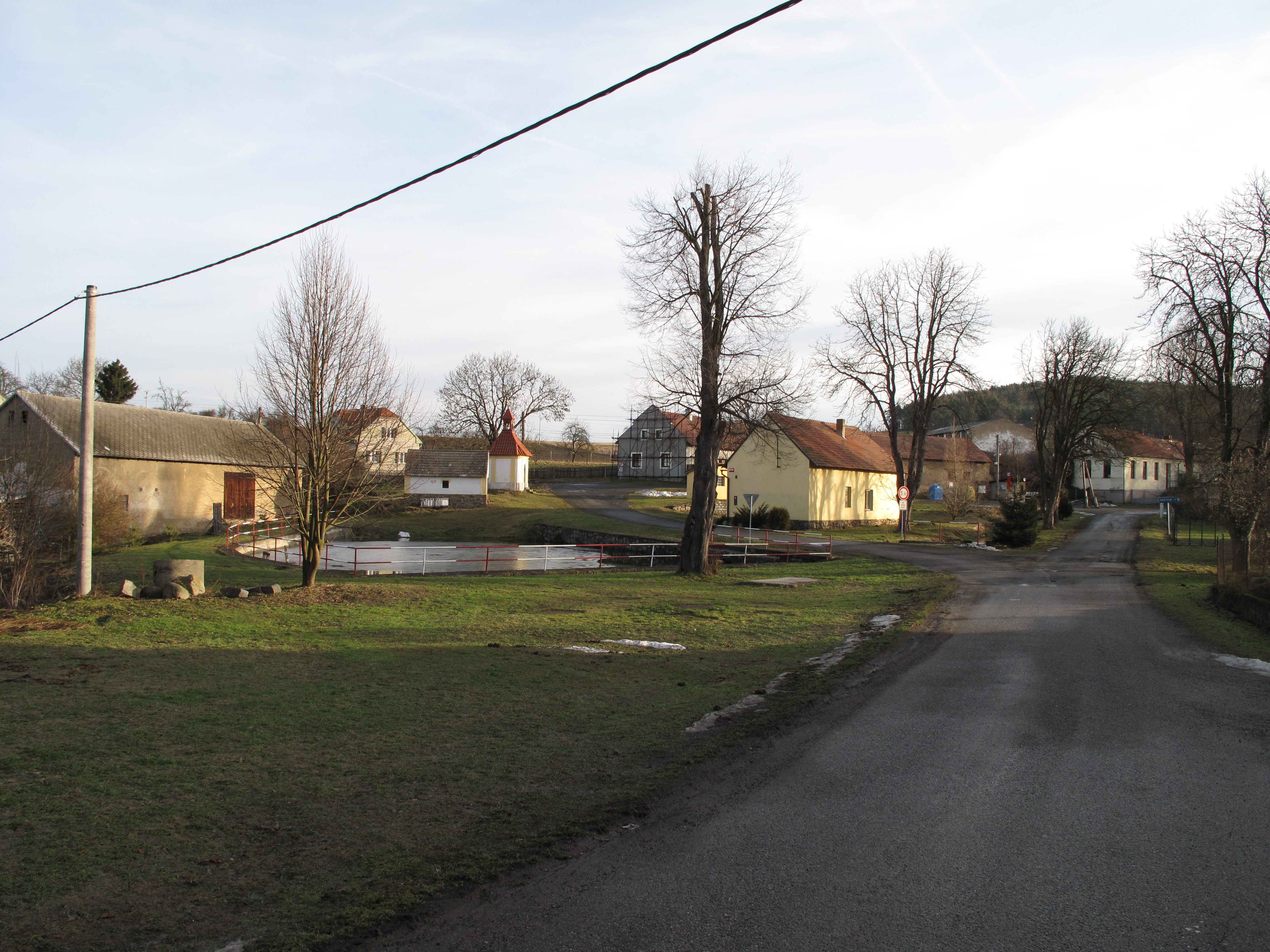 Village square with a pond in Krámy village, Příbram District, Czech Republic.